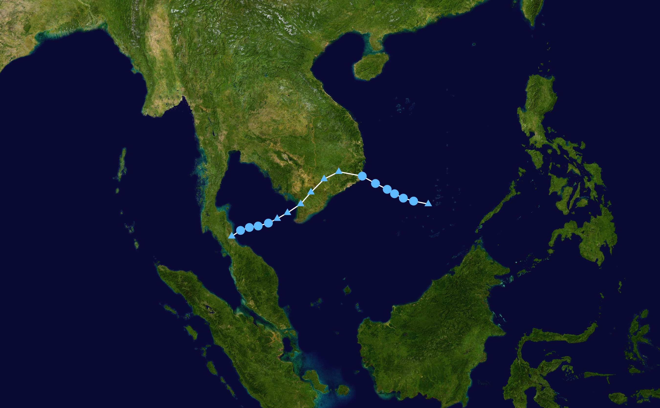 Track map of Tropical Storm Toraji of the 2018 Pacific typhoon season. The points show the location of the storm at 6-hour intervals. The colour represents the storm's maximum sustained wind speeds as classified in the Saffir–Simpson scale (see below), and the shape of the data points represent the nature of the storm, according to the legend below. Saffir–Simpson scale Tropical depression≤38 mph≤62 km/h Category 3111–129 mph178–208 km/h Tropical storm39–73 mph63–118 km/h Category 4130–156 mph209–251 km/h Category 174–95 mph119–153 km/h Category 5≥157 mph≥252 km/h Category 296–110 mph154–177 km/h Unknown Storm type Tropical cyclone Subtropical cyclone Extratropical cyclone / Remnant low / Tropical disturbance / Monsoon depression